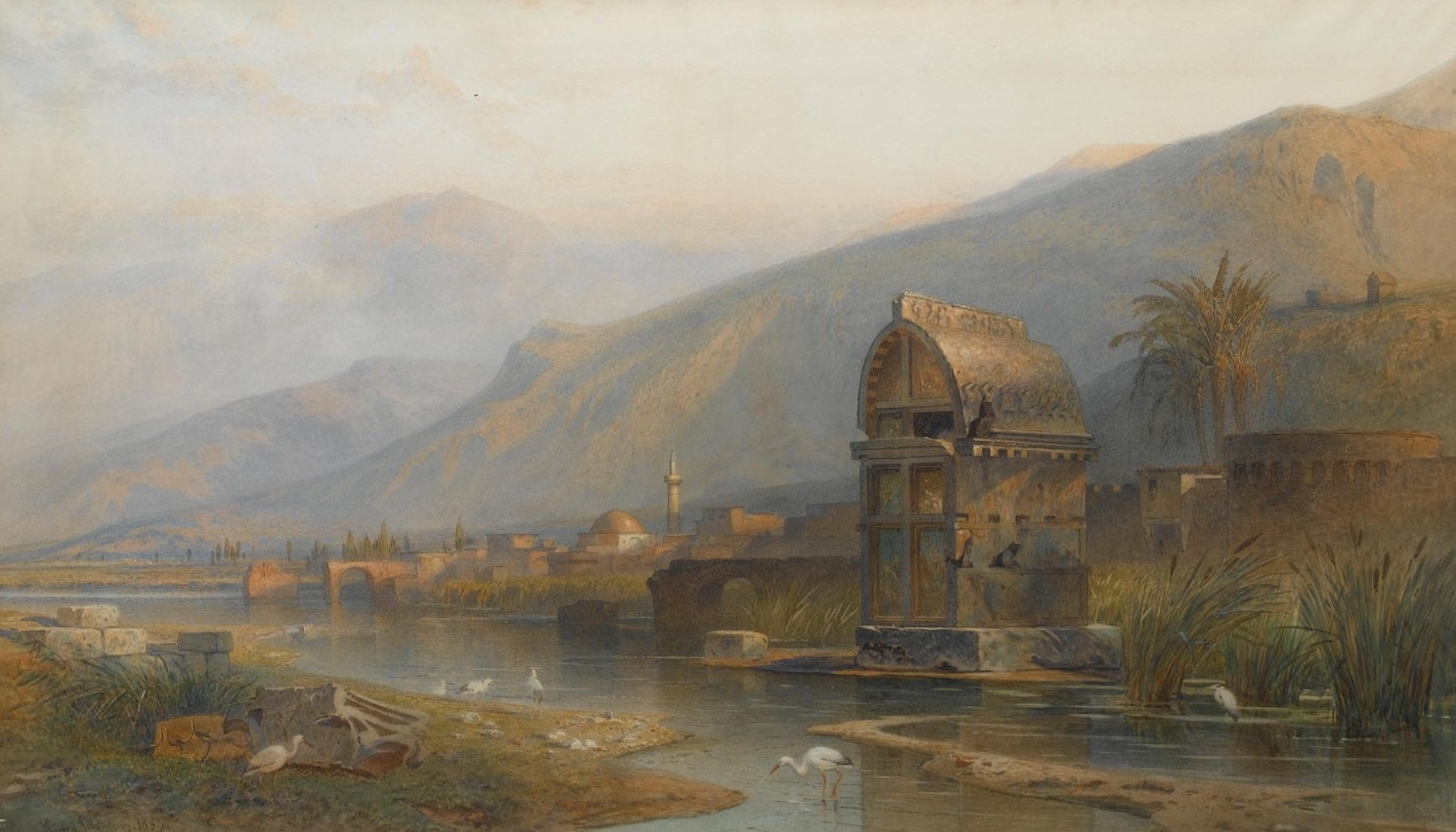 The same sarcophagus today.Lycian sarcophagus in ancient Telmessos